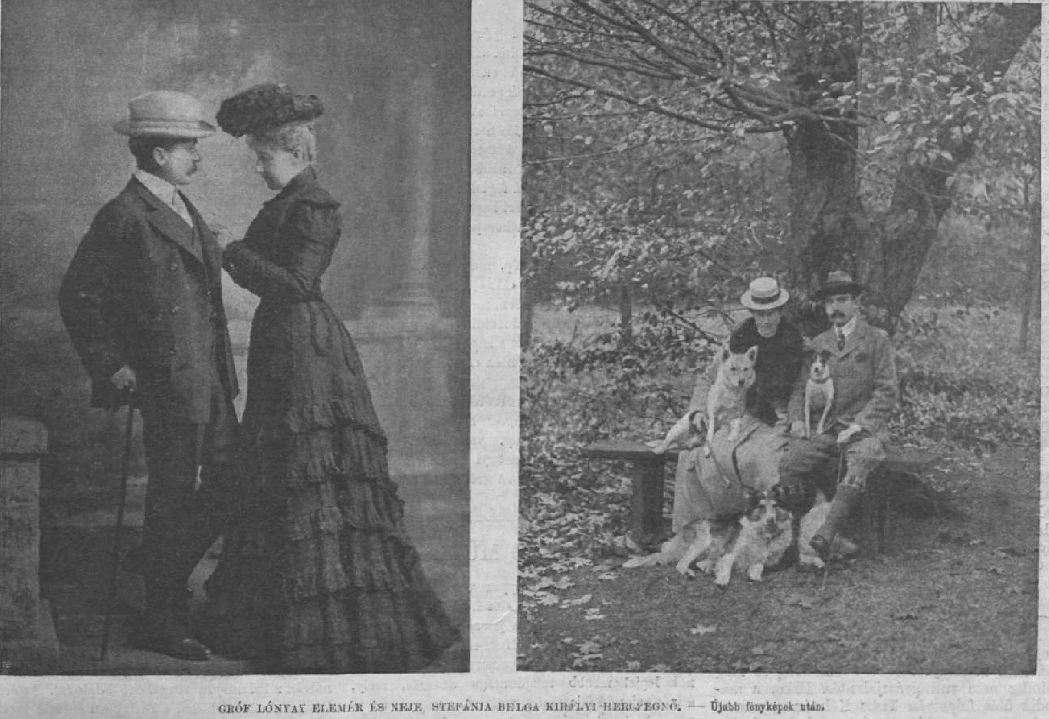 Elemér Lónyay and Princess Stéphanie of Belgium